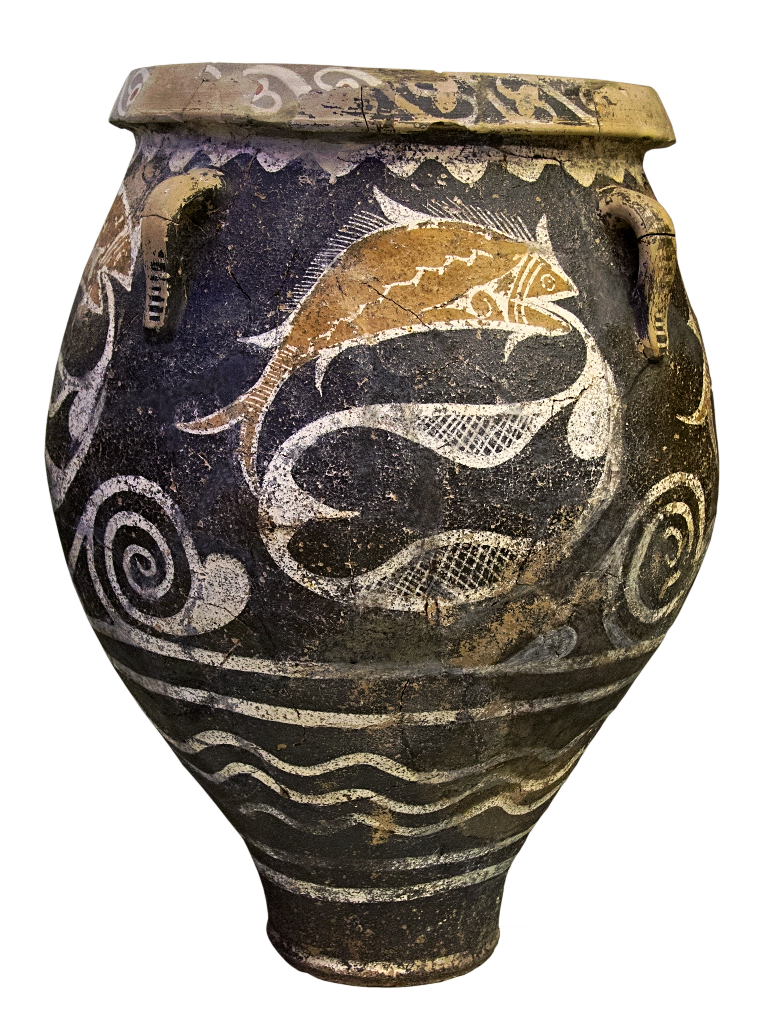 Small pithos, ca. 1800-1700 BCE Kamares Ware from Phaistos depicting wave patterns and fish caught in a net, considered to be one of the earliest examples of the shift in Minoan vase-painting towards the depiction of the natural world. Now in the Archaeological Museum of Heraklion, Crete. The original photo was taken and uploaded by user:Zde own work 3 September 2014, 15:48:57 This version of the image has been slightly cropped, white balanced, and the background has been changed to solid white.